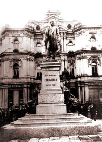 A photo of monument to Russian prime-minister Piotr Stolypin in old Kyiv, Ukraine